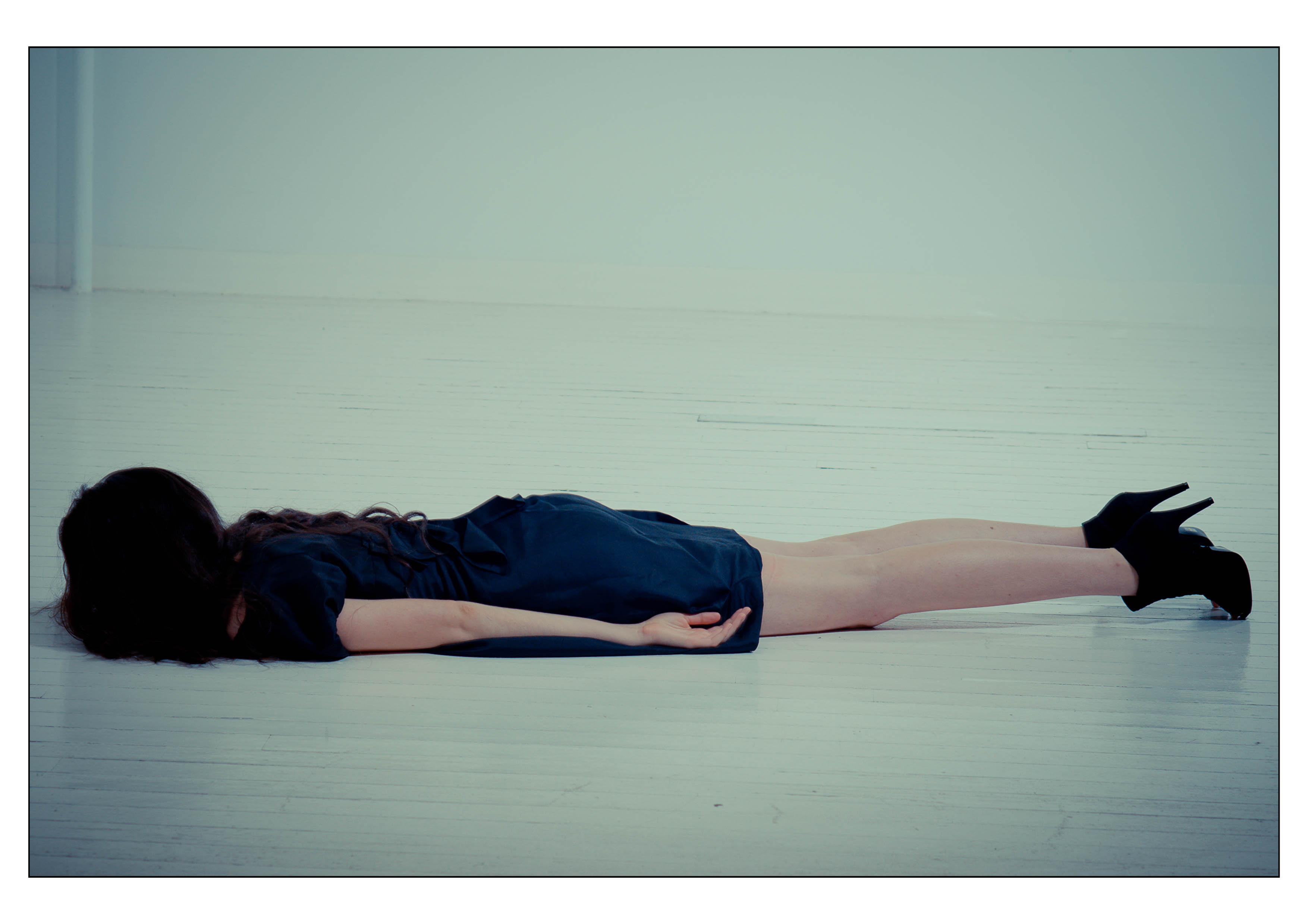 A female model, planking in a photographers' studio. "Emma Hambleton, the model on the day from Vivian's Models."